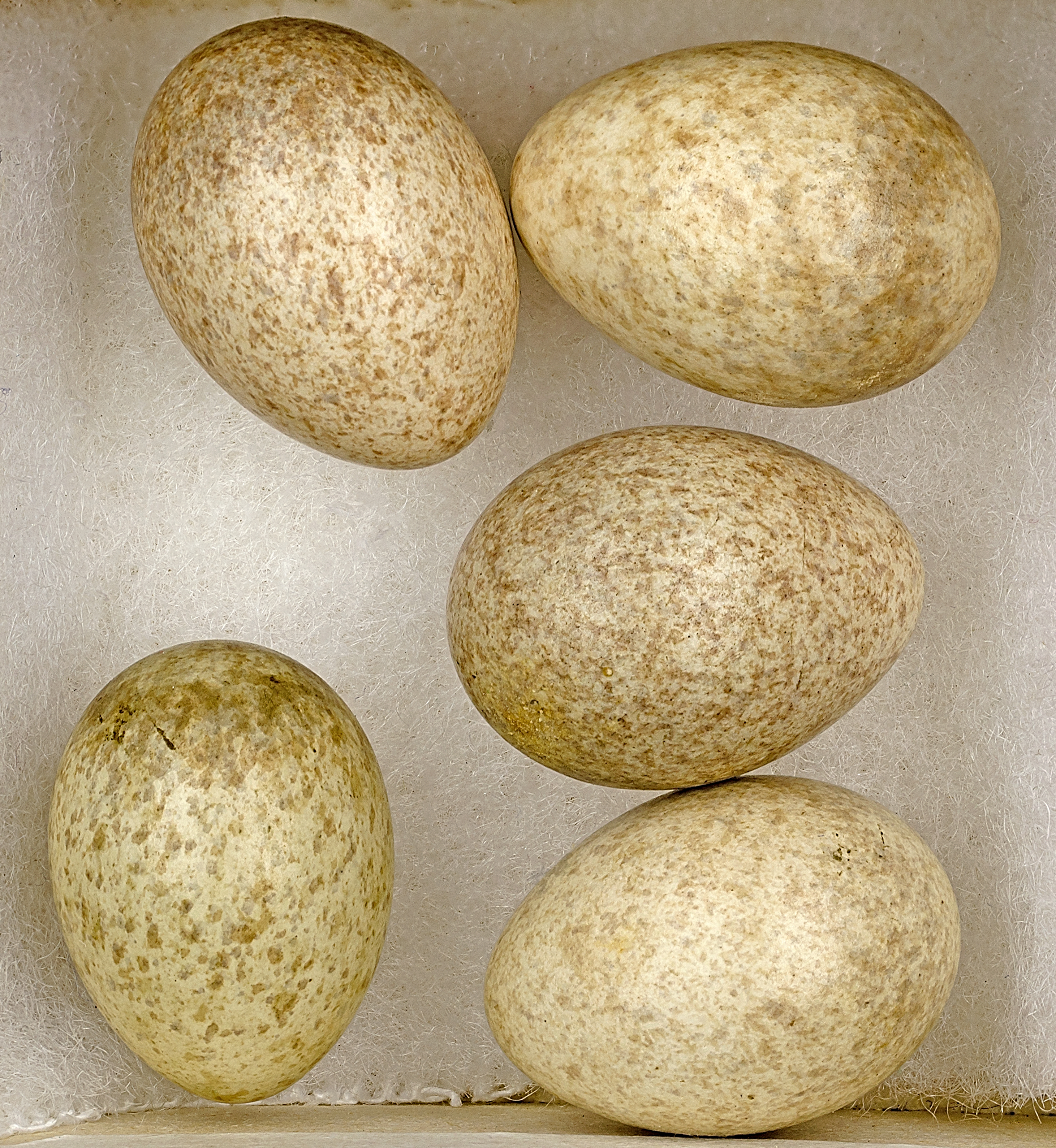 Egg of Greater Short-toed Lark. Collection of Jacques Perrin de Brichambaut.